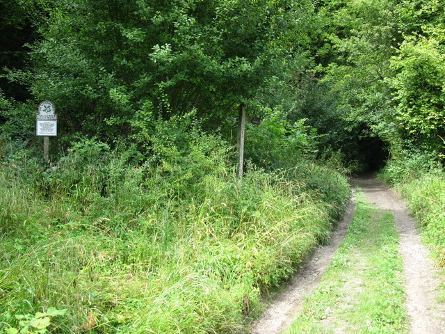 Entrance to Selborne Common The National Trust sign shows this is Selborne Common, an area of mainly woodland but also open areas which used to be used for sheep grazing.